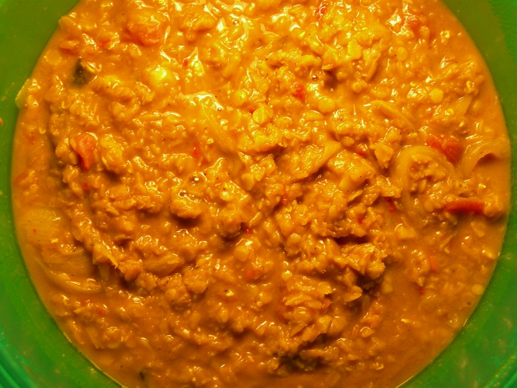 Masoor dal made with a traditional yellow dal recipe.